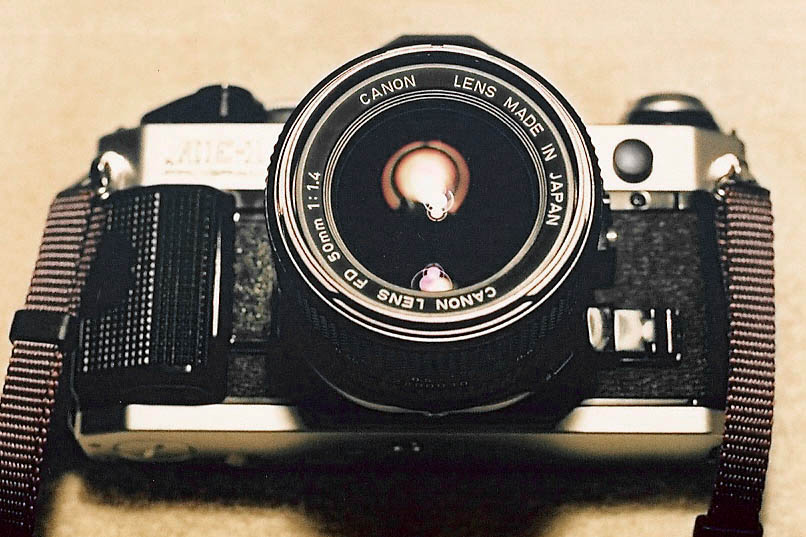 Close up shot of an FD lens, cropped. Taken with 2nd Canon AE-1.